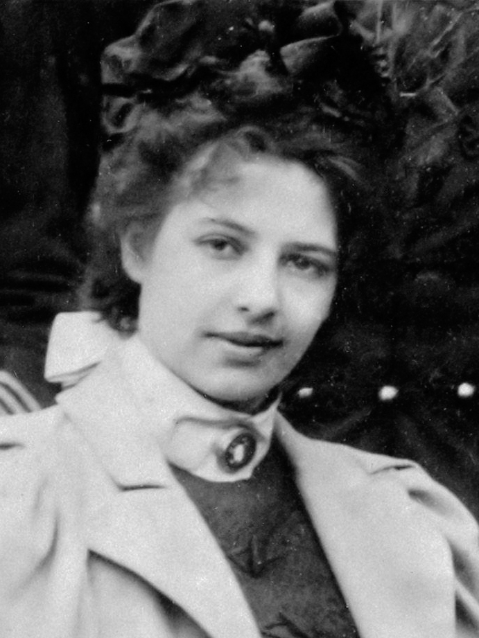 Margaretha Geertruida Zelle (de latere Mata Hari) op weg naar Indonesië 1897